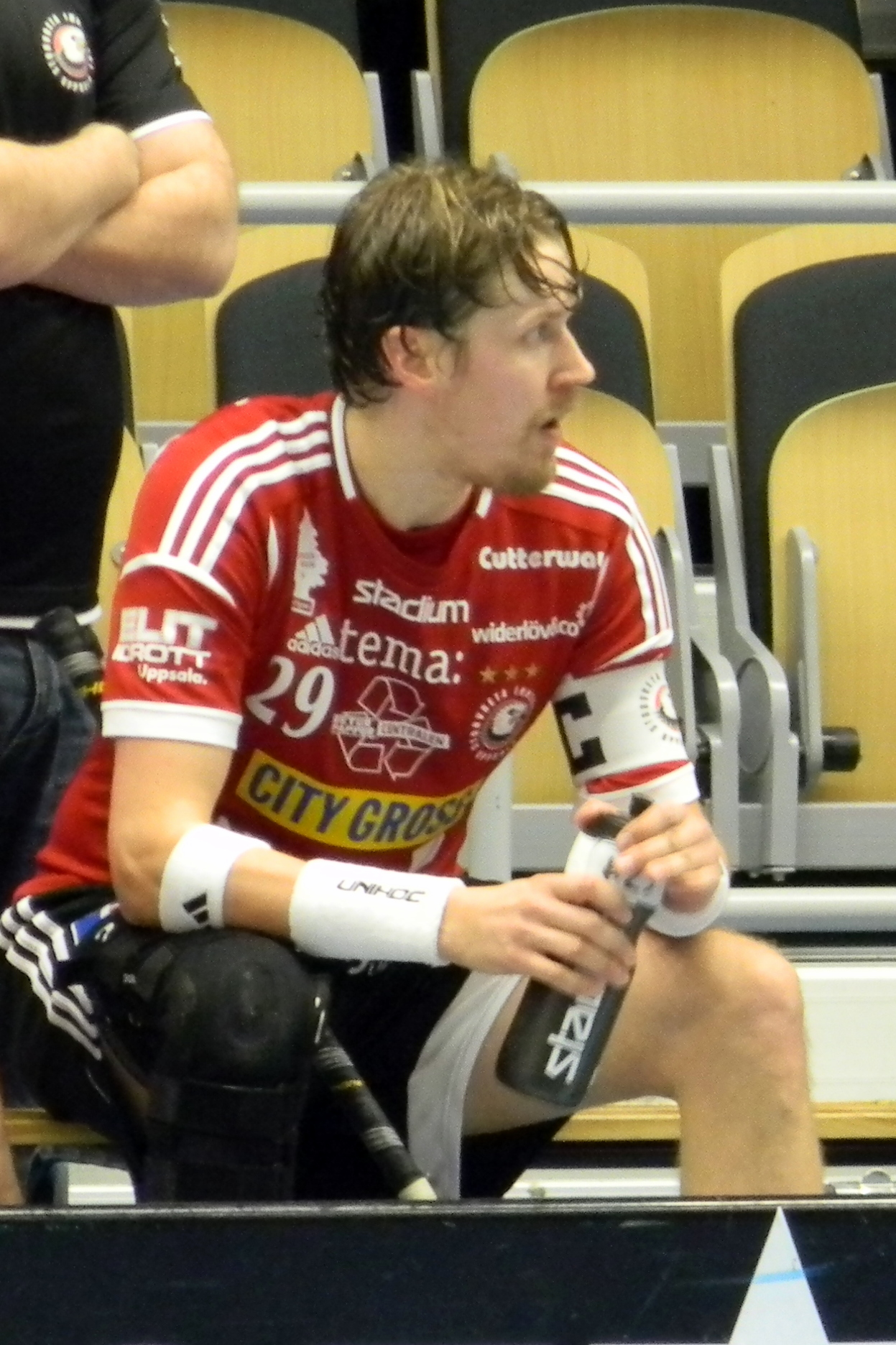 Mika Kohonen, a floorball player from Finland